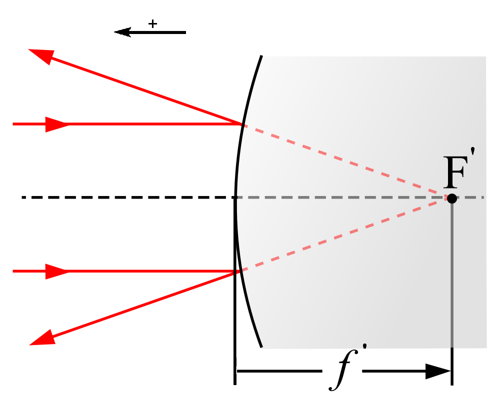 The focus F and the focal length f (negative) of a convex mirror.